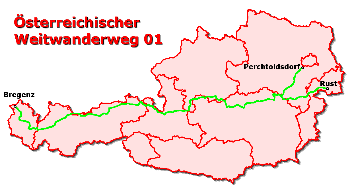 Map about the route of the Austrian long distance path #01